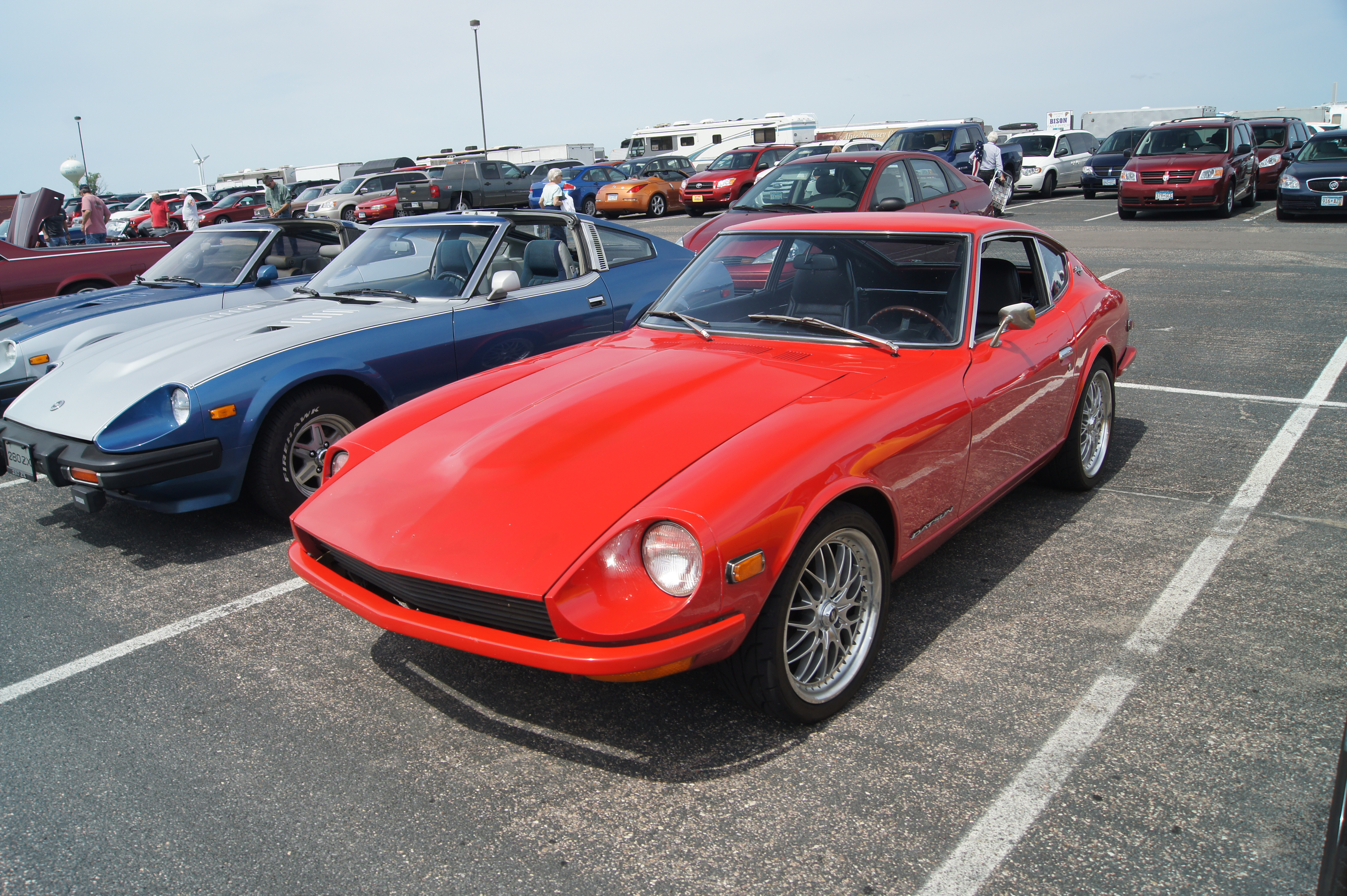 26th Annual New London to New Brighton Antique Car Run August 11, 2012.